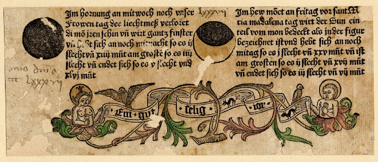 Fragment of a calendar, with wishes for the new year, printed in Basel, British Museum